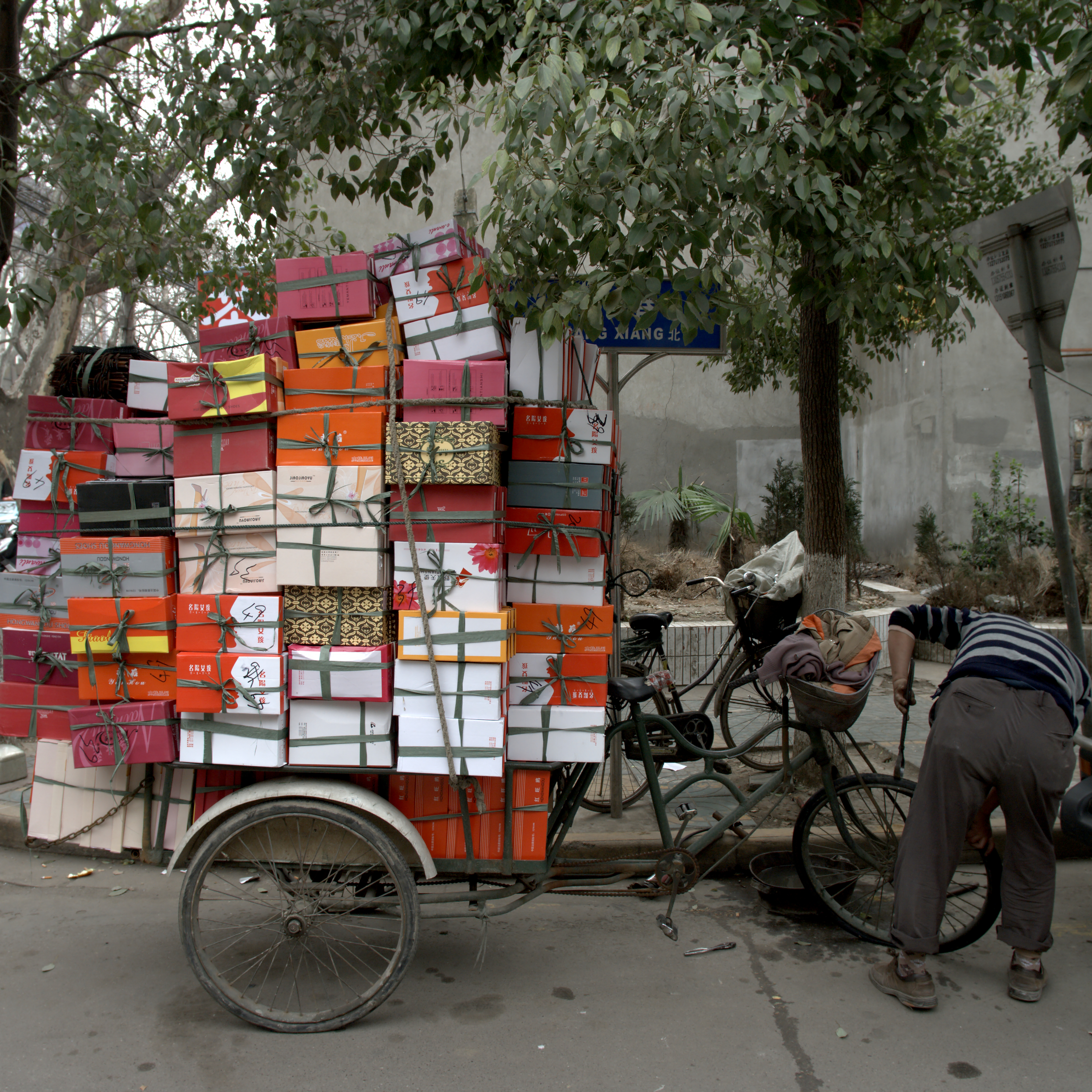 A man is repairing a tri-cycle who seems loaded with boxes of shoes. Nanjing, China.